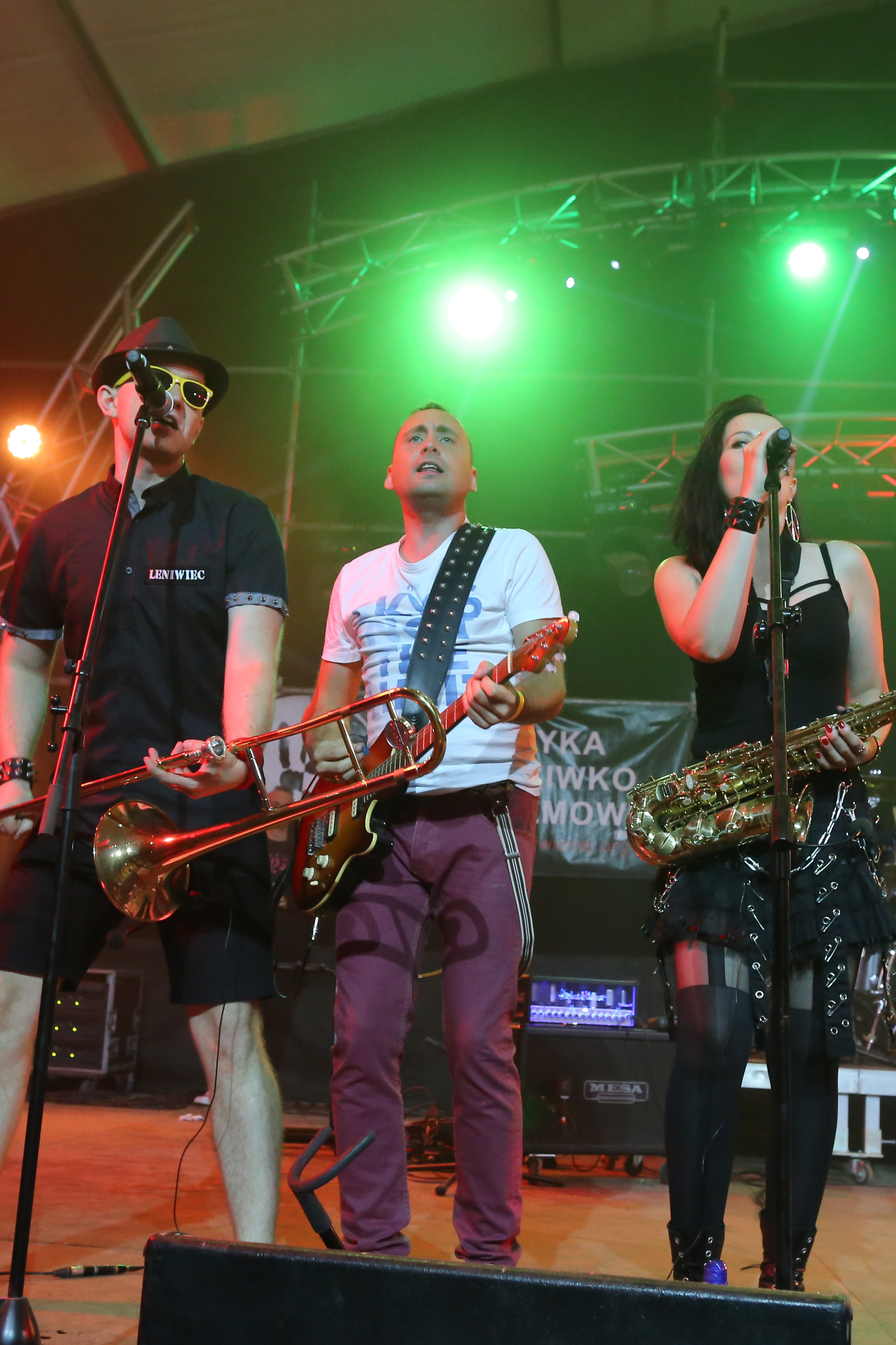 Przystanek Woodstock in 2017.